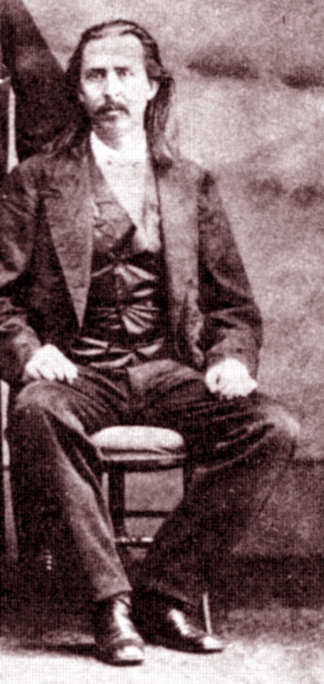 Cropped image of William Penn Adair from a photograph of Cherokee delegates to the US Congress in Washington DC